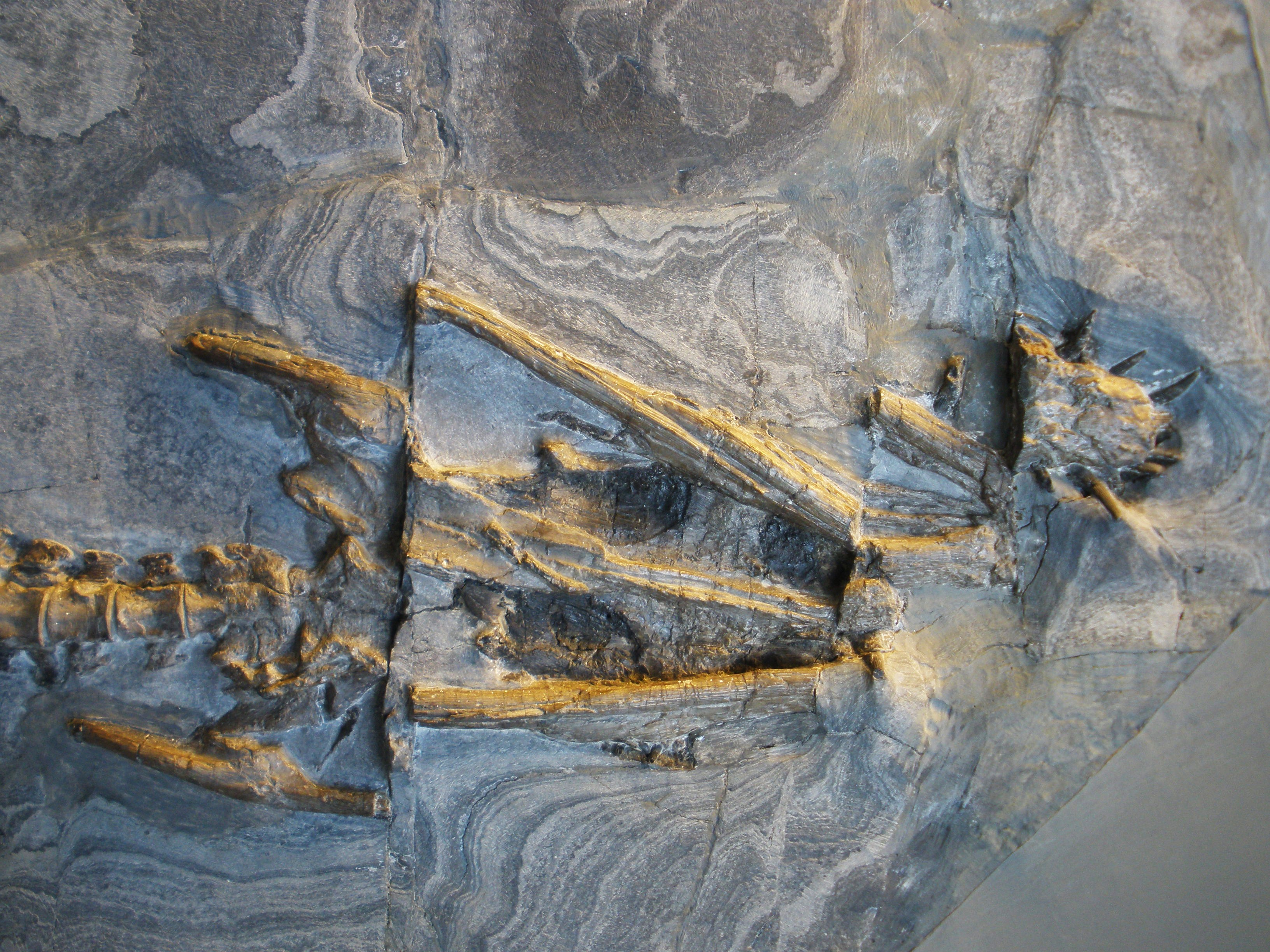 fossil ceresiosaurus